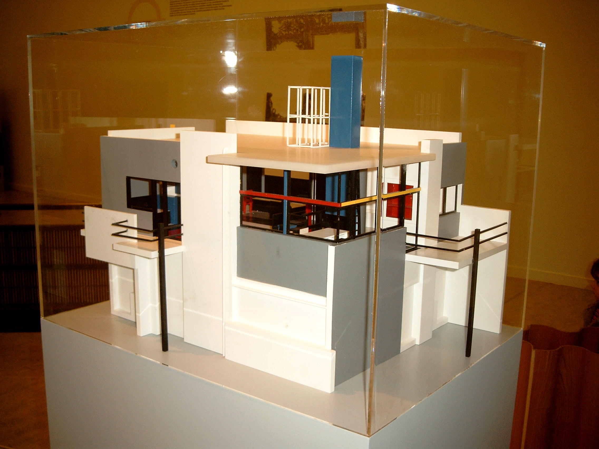 Scale model of the Schröderhuis, circa 1985. The house was built in 1924 to a design by Gerrit Rietveld.